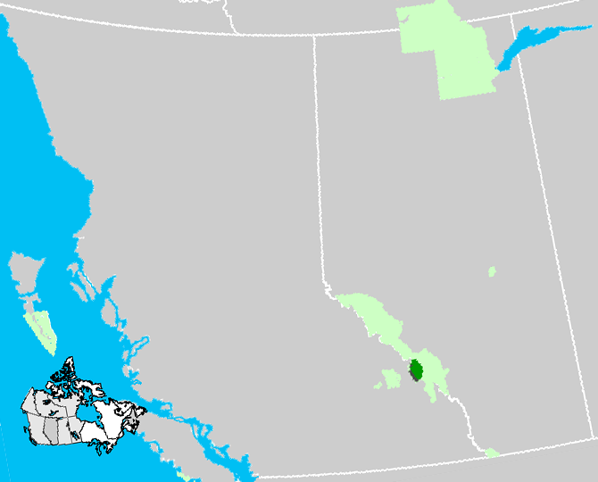 Location of Yoho National Park